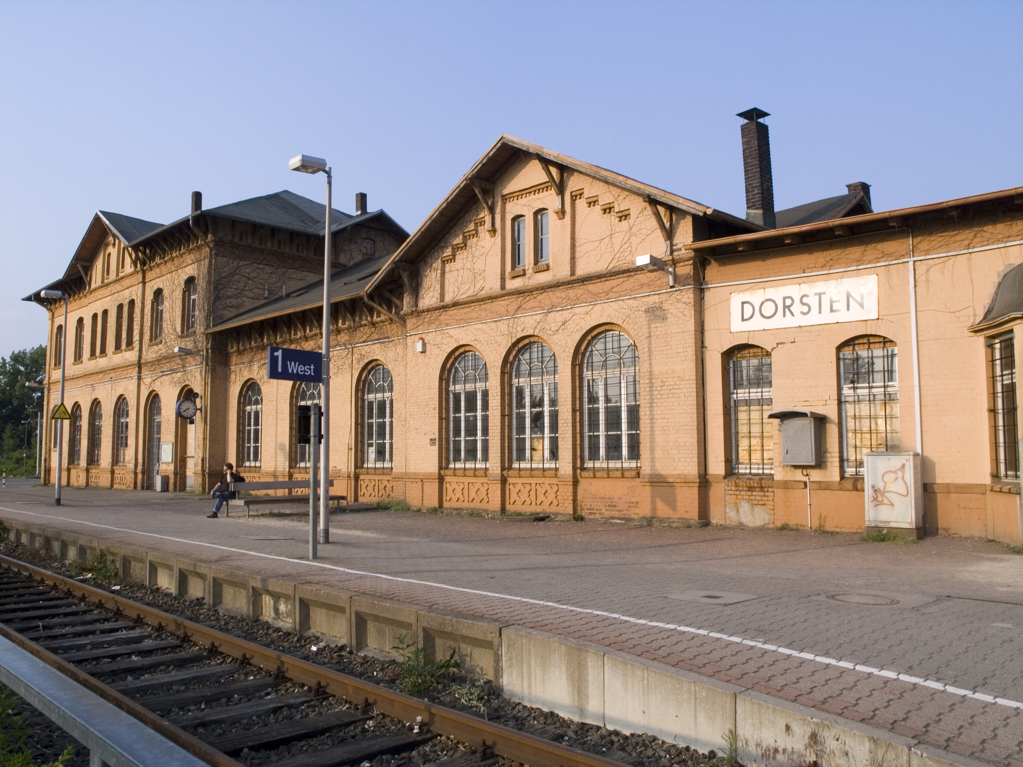 Dorsten Central Station